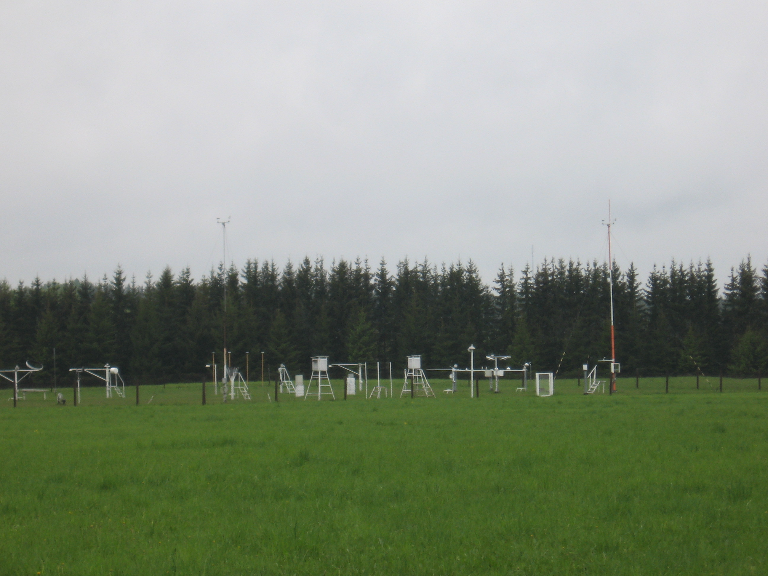 Tõravere weather station (Tartu, Estonia)